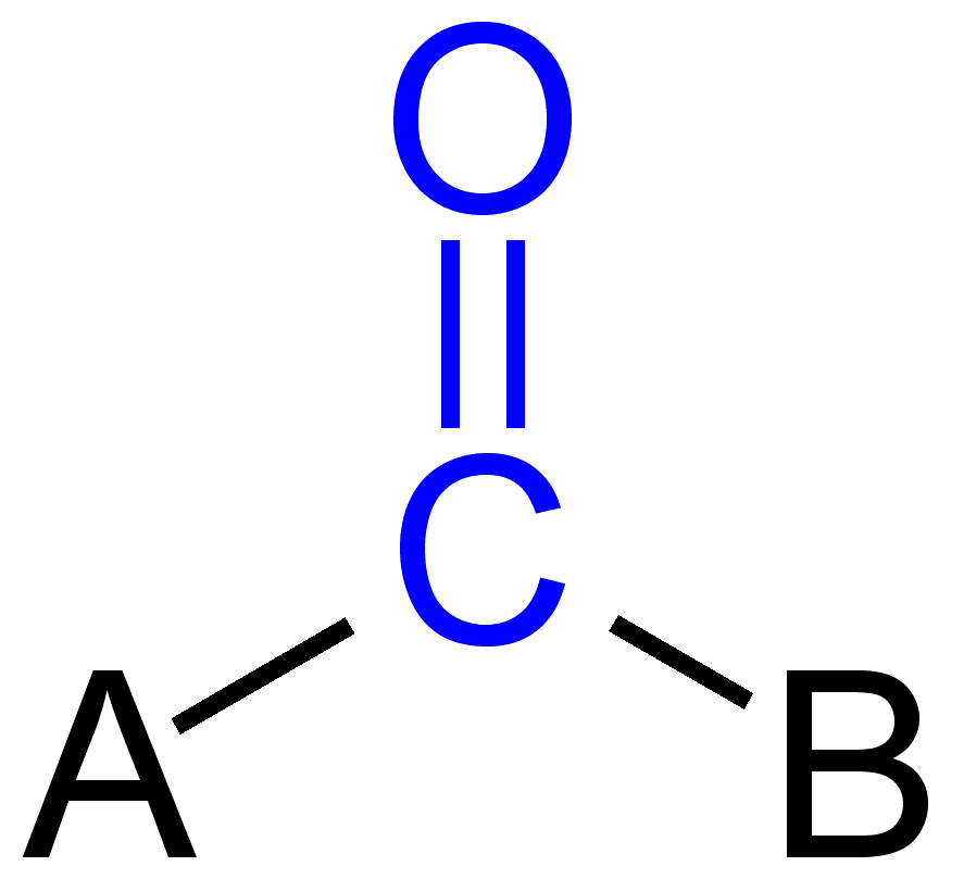 Carbonyl_Group